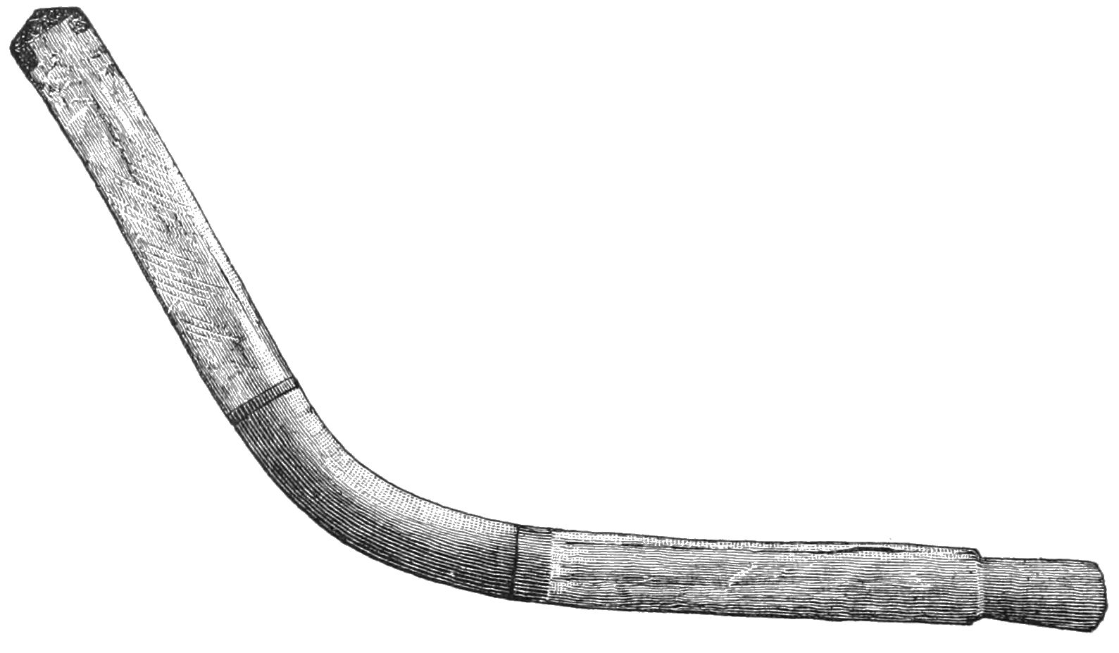 Moqui style boomerang used by the Zuni in rabbit hunts